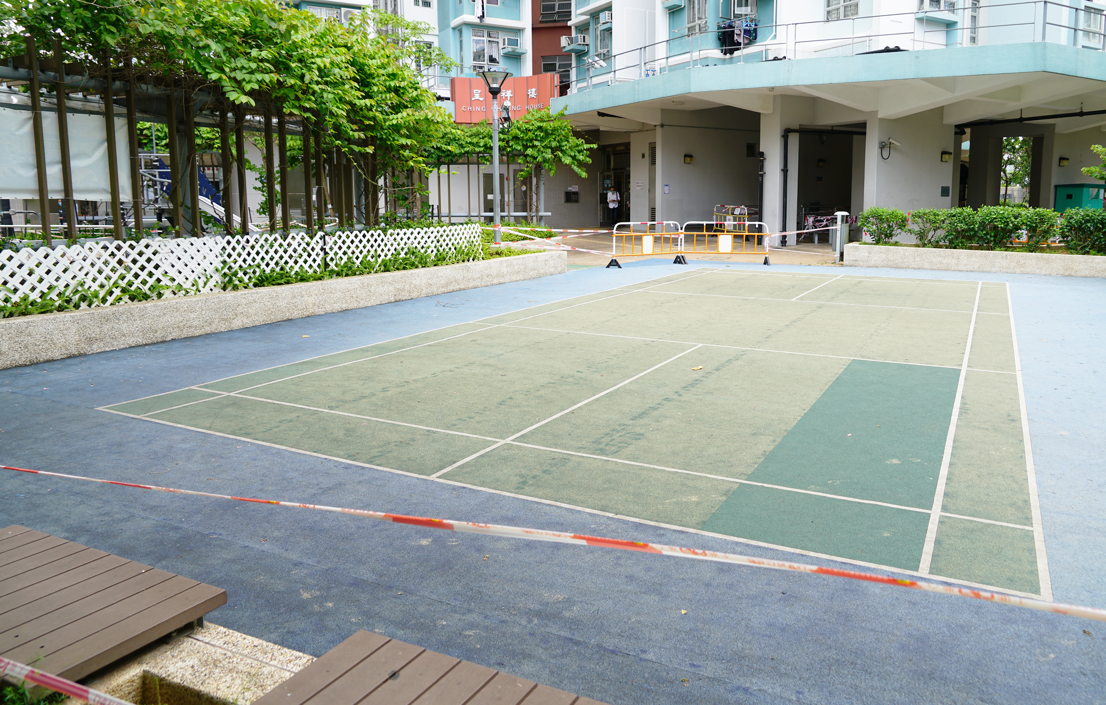 Cheung Lung Wai Estate, Hong Kong.